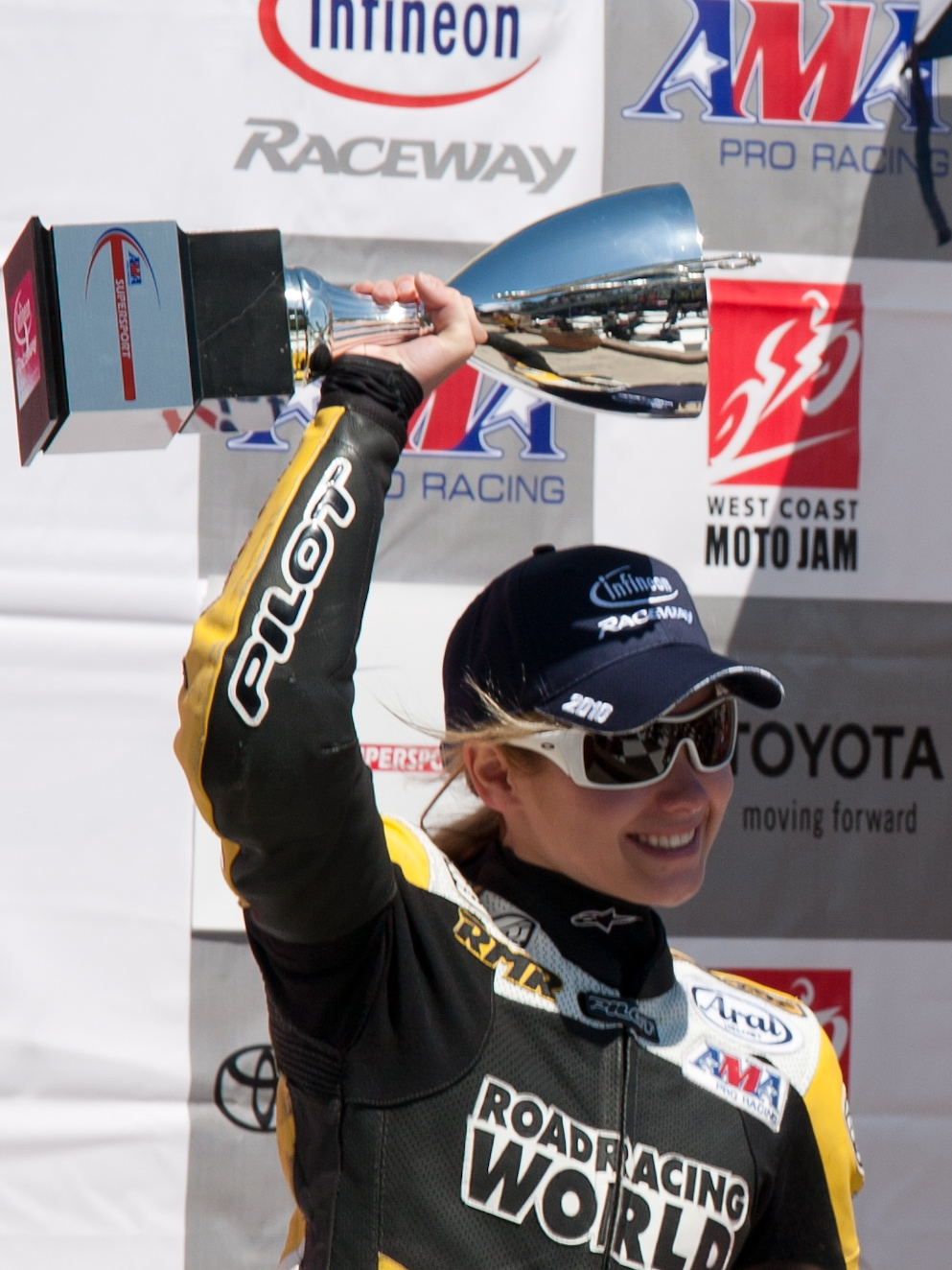 Elena Myers on podium at Infineon Raceway Saturday May 15 2010, the first female rider to win an American Motorcyclist Association Pro Racing event at Infineon Raceway, Sonoma California 2010. Myers placed first in Race 1, Round 1 of the 2010 AMA Pro Supersport Championship.